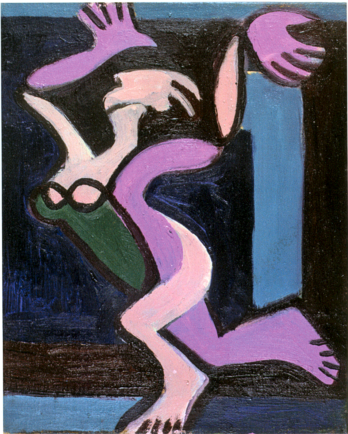 Dancing female nude, Gret Palucca - Oil on canvas - 41 x 33 cm - Private estate